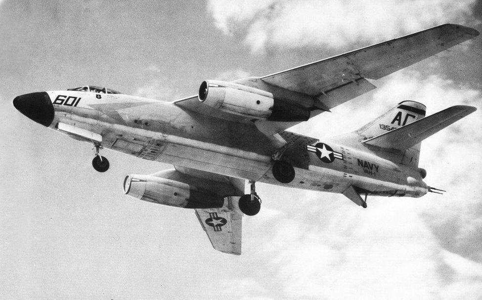 A U.S. Navy Douglas A3D-2 Skywarrior of Heavy Attack Squadron VAH-1 "Smokin' Tigers" approaches the the aircraft carrier USS Independence (CVA-62). VAH-1 was assigned to Carrier Air Group 7 (CVG-7) aboard the "Independence" during her shakedown cruise to the Atlantic Ocean from 22 April to 30 June 1959.